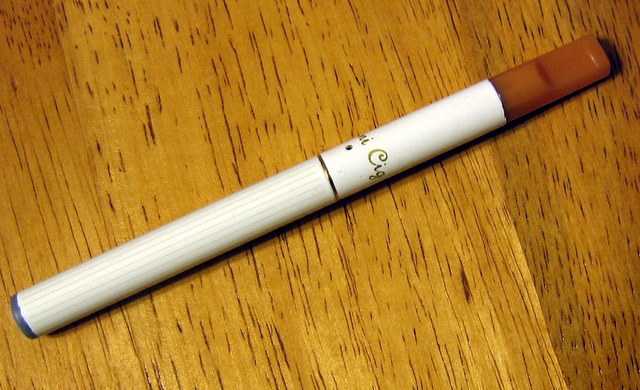 A photo of 117mm e-cigarette